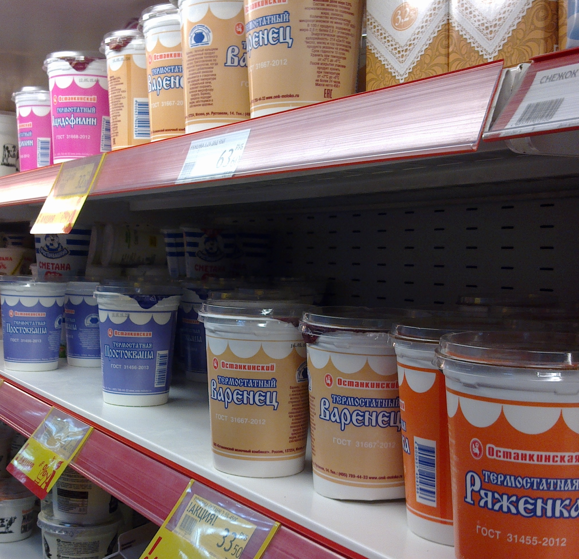 Thermostatic dairy products of Ostankinsky dairy combine at the grocery store